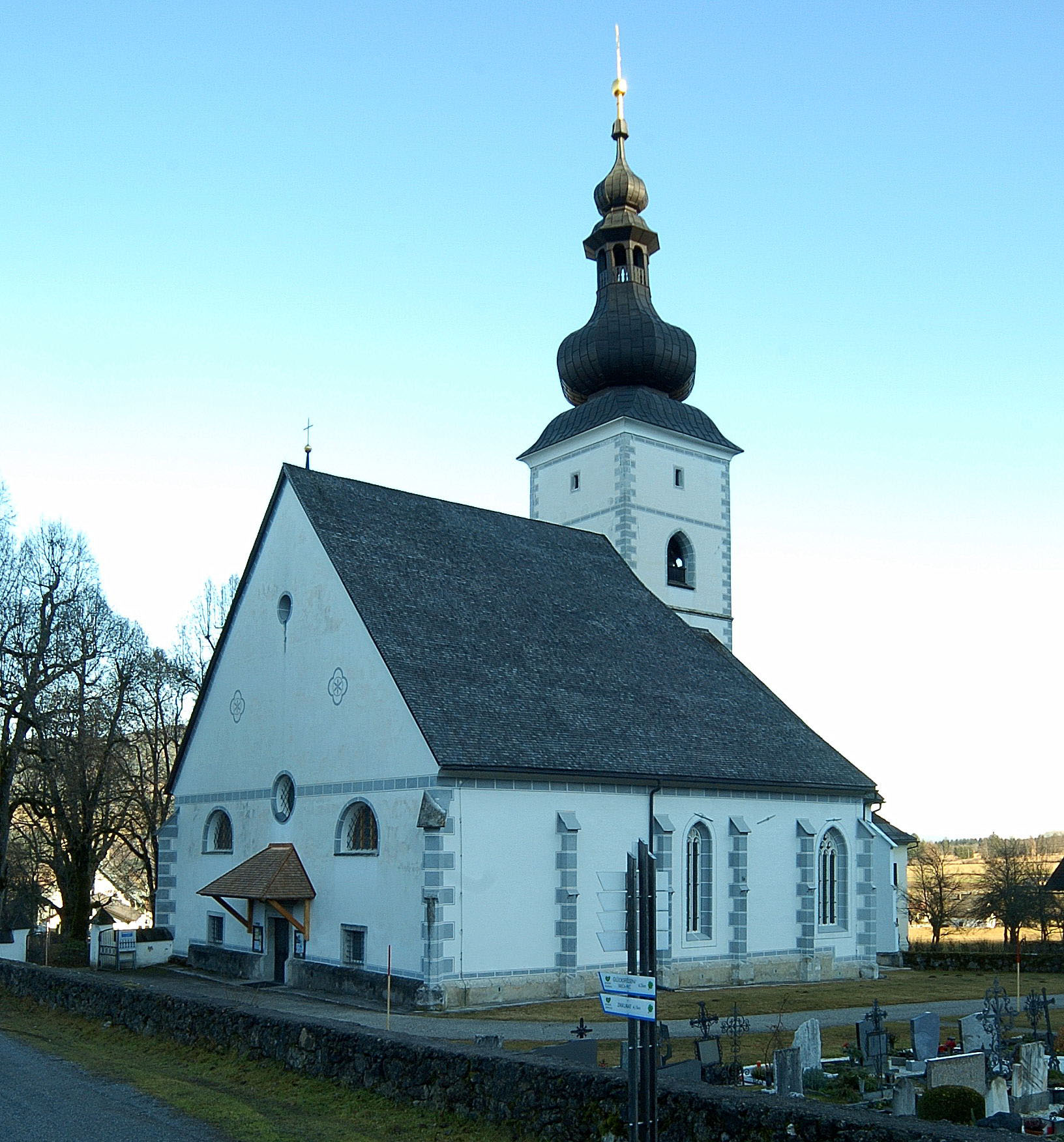 Parish and pilgrimage church Mary Misery in Maria Elend, municipality Sankt Jakob im Rosental, district Villach Land, Carinthia, Austria